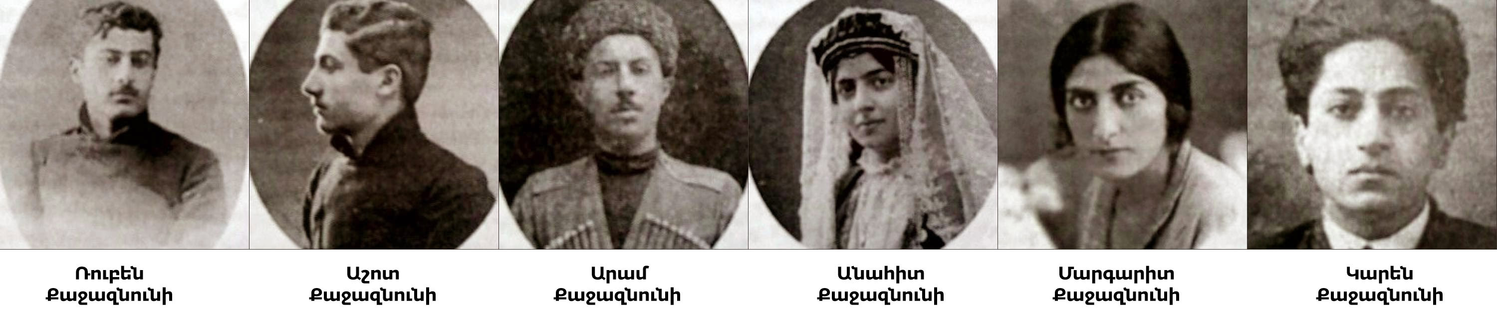 4 sons and 2 daughters of Hovhannes Kajaznouni, prime minister of Republic of Armenia in 1918-1919